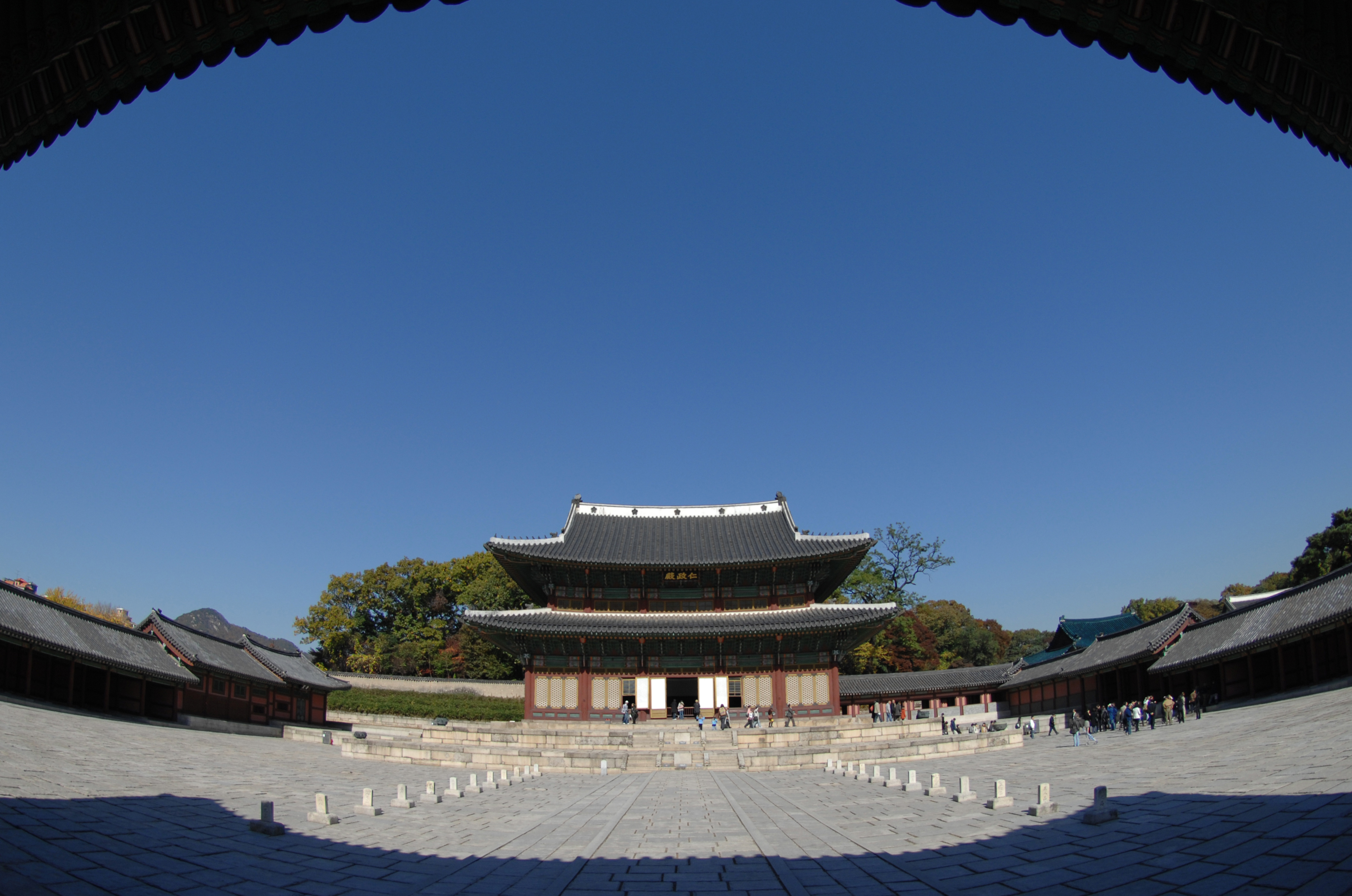 FROM SIGN AT PALACE ENTRANCE: Changdeokgun Palace was constructed in 1405, the fifth year of King Taejong (r.1400-1418), the third Joseon Gyeongbokgung Palace was to the west and Changdeokgung Palace to the east. All of the palace buildingS were destroyed by fire during the Japanese invasion of 1592. Changdeokgung was restored in 1610 and served as the main palace for 270 year until Gyeongbokgung was finally reconstructed in 1868 during the reign of King Gojong. Since the palace was to the east of Gyeongbokgung, where major buildings are arranged in accordance with the main axis of the meridian, Changdeokgung is laid out in harmony with the area’s topography; the palace architecture has a dissymmetric beauty that is unique to Korea. The layout of Changdeokgung is welcoming and offered the royal residents much convenience. It influenced the layout of other major palaces. The buildings of Changdeokgung Palace including Daejojeon, the queen’s residence, were destroyed in 1917 by fire. To replace them, buildings at Gyeongbokgung Palace were dismantled and moved here. In the process, many structures were modified or damaged. Full restoration work began in 1991 and is still under way. Despite all of the damage done to the palace in the years past, Changdeokgung is relatively well preserved and is representative of Korean palace architecture. The garden of Changdeokgung is one of the most enchanting spaces in Korea. The Changdeokgung Palace complex was inscribed on the USESCO World Cultural Heritage List in 1997 for its outstanding architecture and a design that is in harmony with the landscape.US Army photo by Edward N. Johnson, Installation Management Command, Korea RegionThese images are generally cleared for release and considered in the public domain. Request credit be given the US Army and individual photographer.To learn more about living and working for the U.S. Army in Korea visit us online at: or